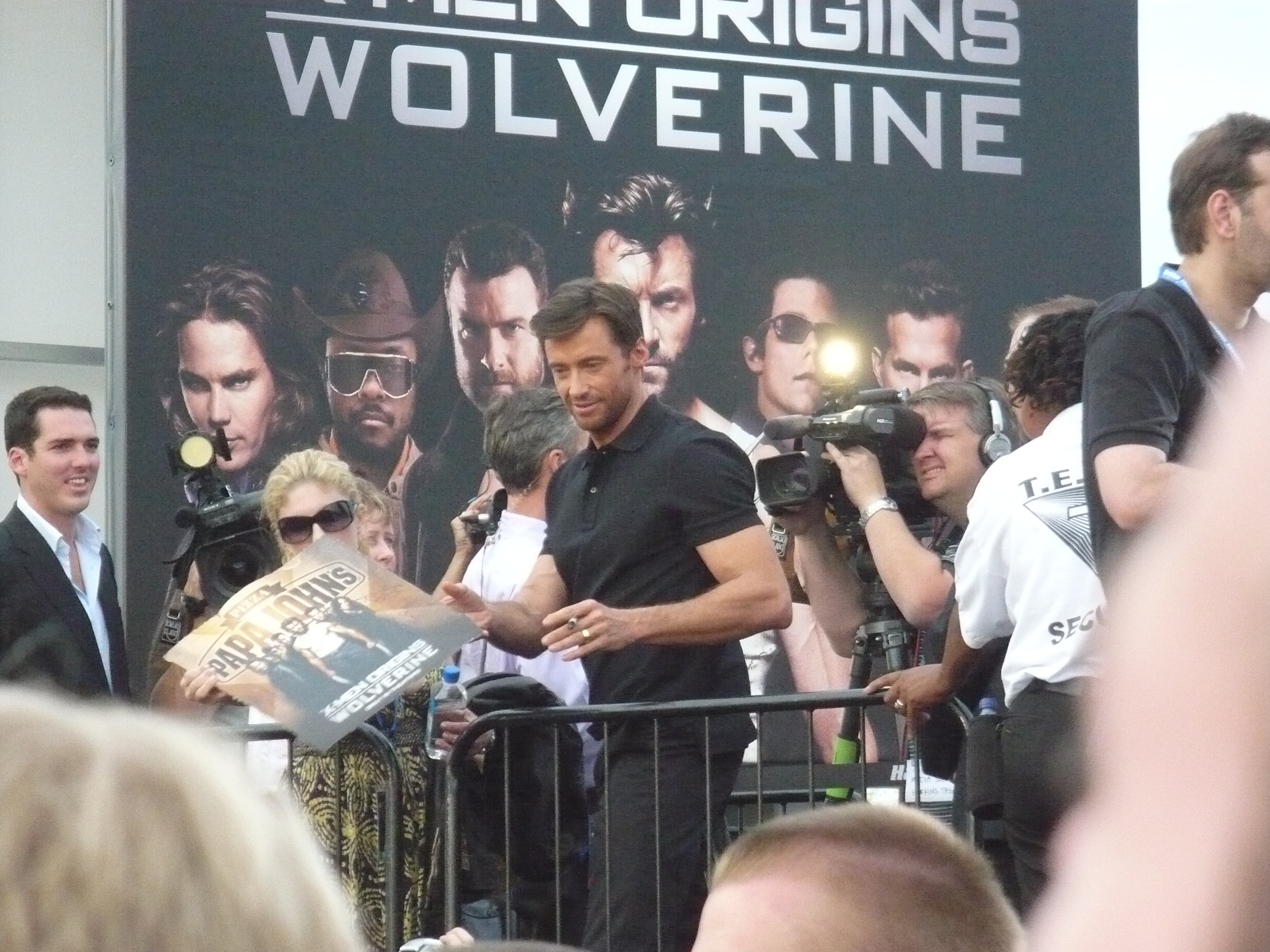 X-Men Origins: Wolverine movie premiere.